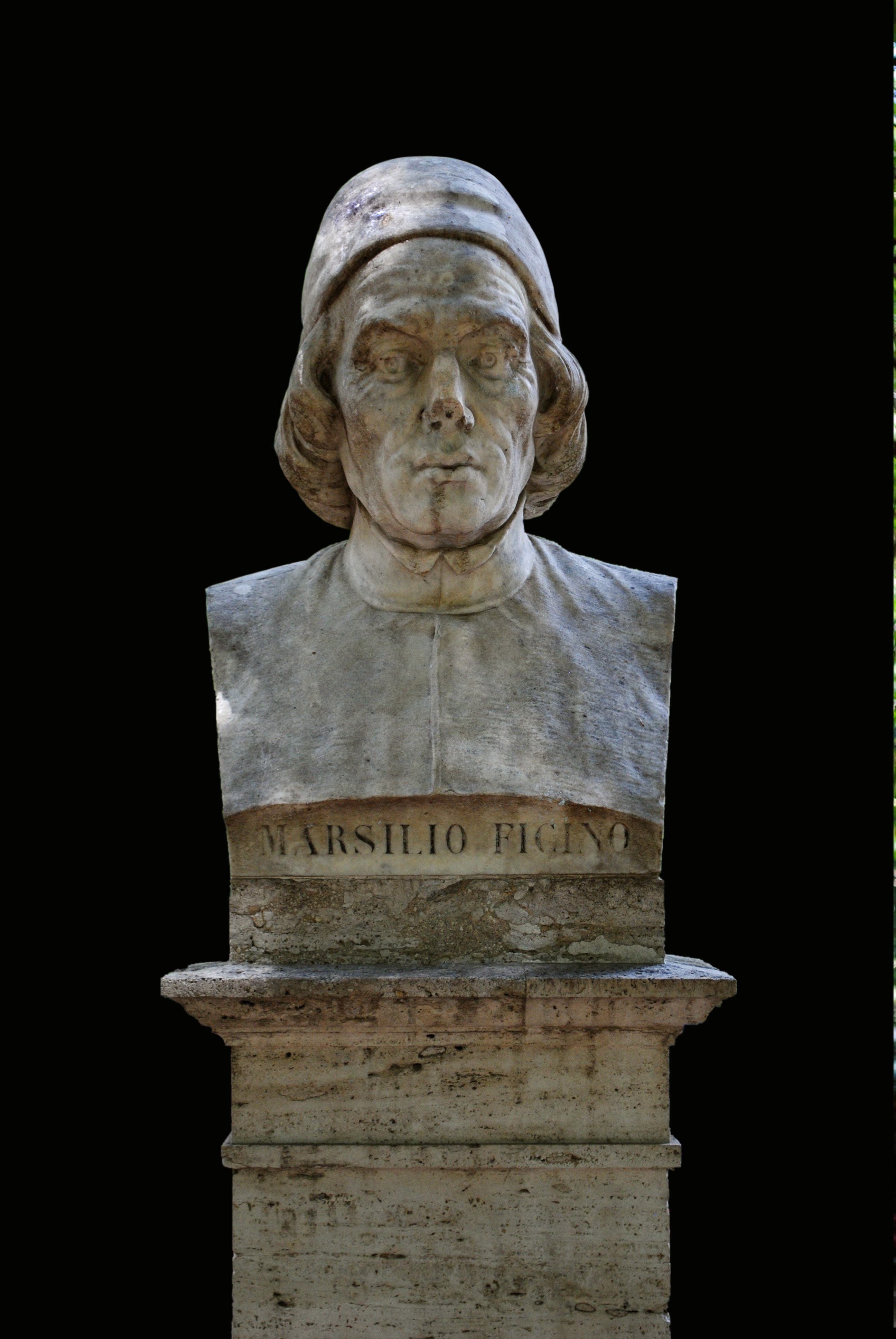 Bust of Marsile Ficin, domain of the villa Borghèse, Panati 1889